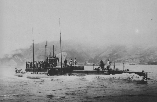 HIJMS Ro-11